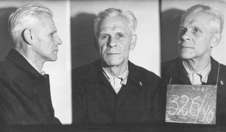 Józef Herzog (1901-1983) - Major of the Polish Army. Photo made after arrest by communist political police ( Ministry of Public Security) 1946